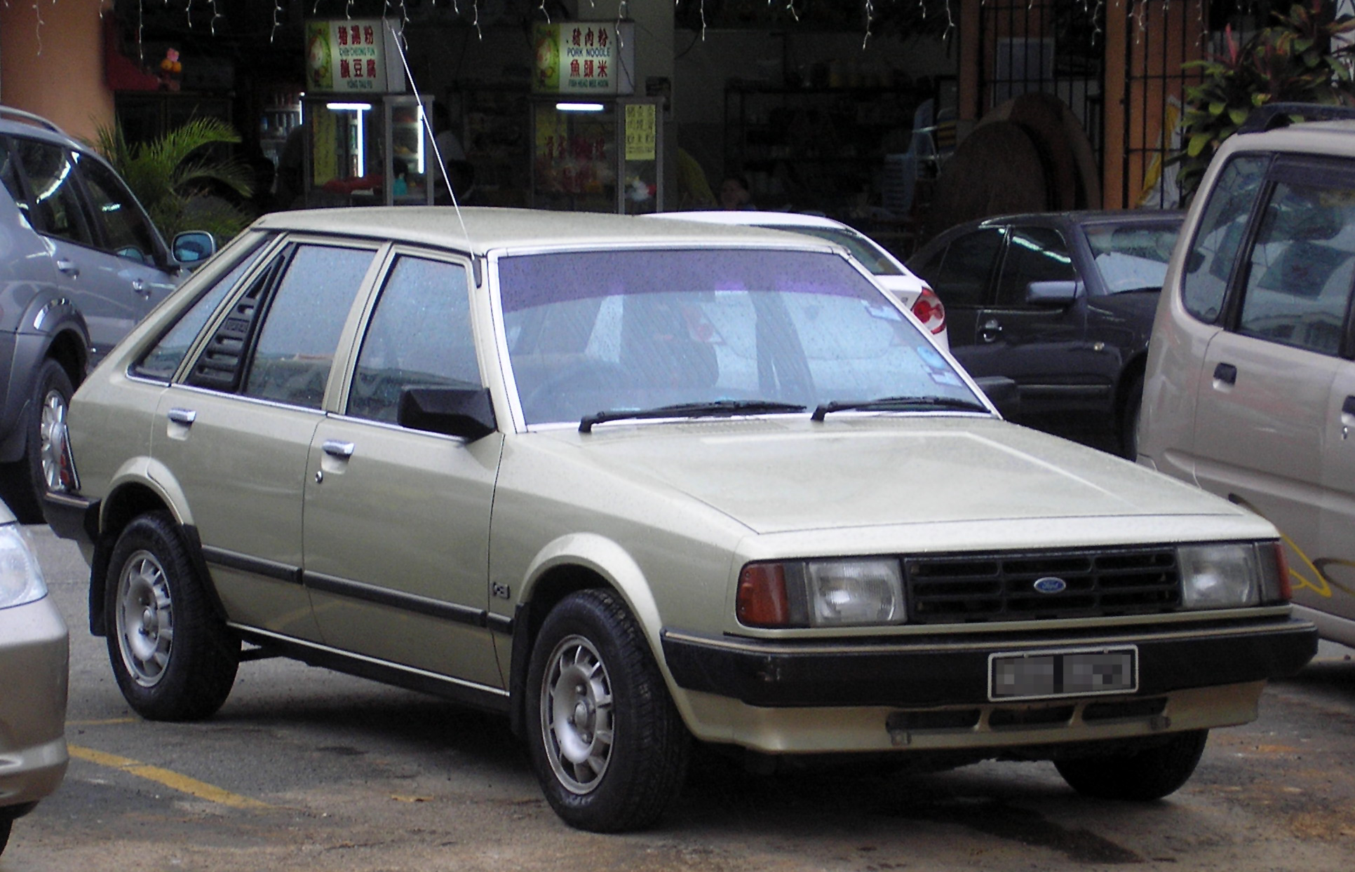 Front quarter view of a first generation Ford Laser (KB) GL hatchback, in the Serdang, Selangor, Malaysia.